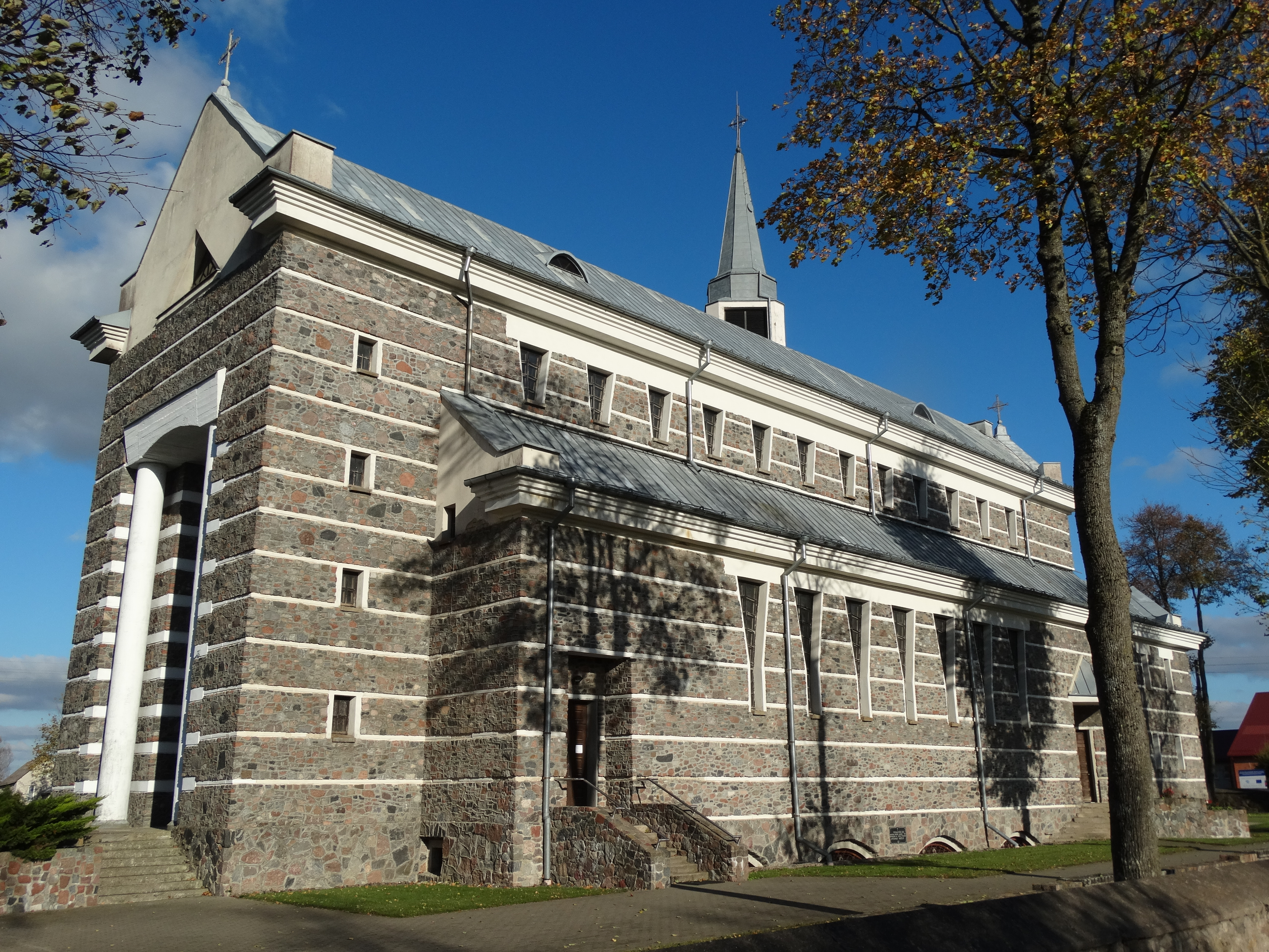 Holy Trinity Church, Nemakščiai, Raseiniai District, Lithuania